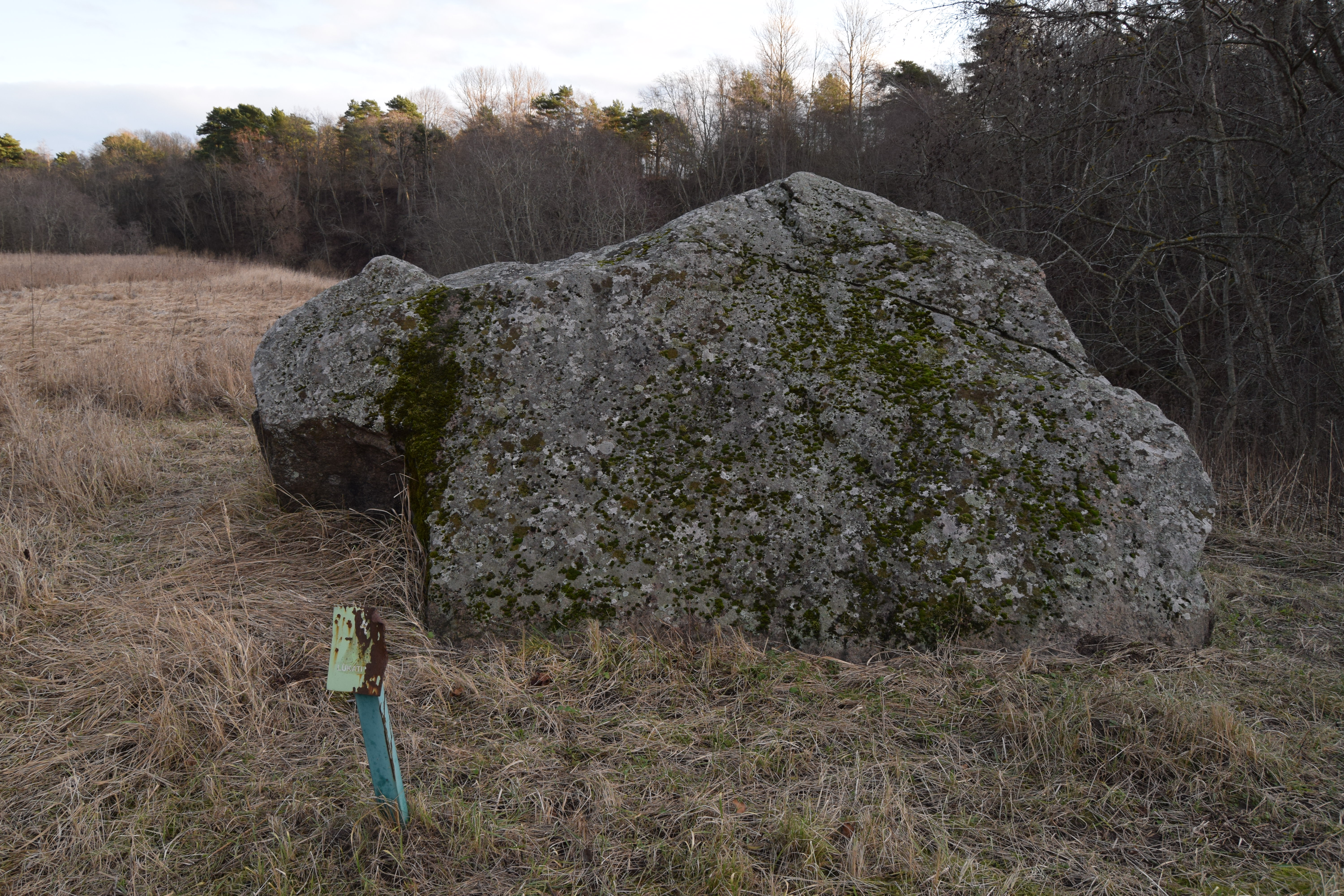 Lükati boulder